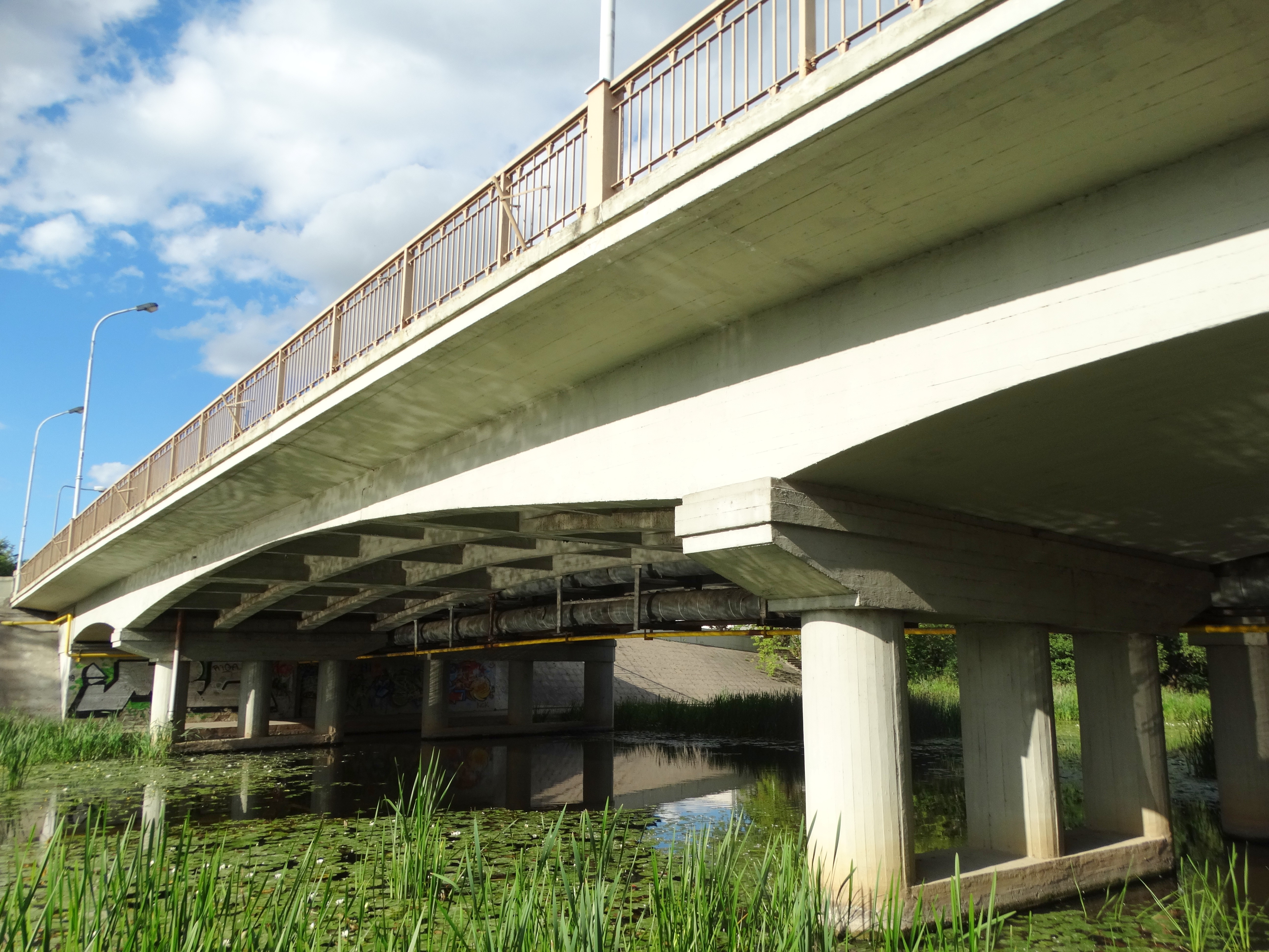 Smėlynė street bridge, Panevėžys, Lithuania